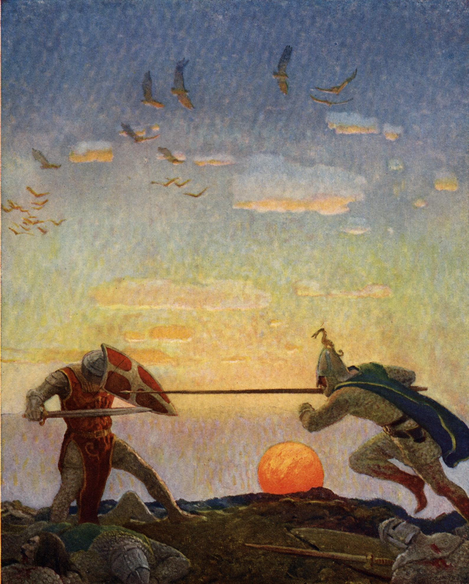 Illustration from page 306 of The Boy's King Arthur: the death of Arthur and Mordred - "Then the king ... ran towards Sir Mordred, crying, 'Traitor, now is thy death day come.'"